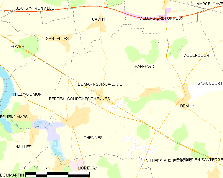 Map of French municipality Domart-sur-la-Luce